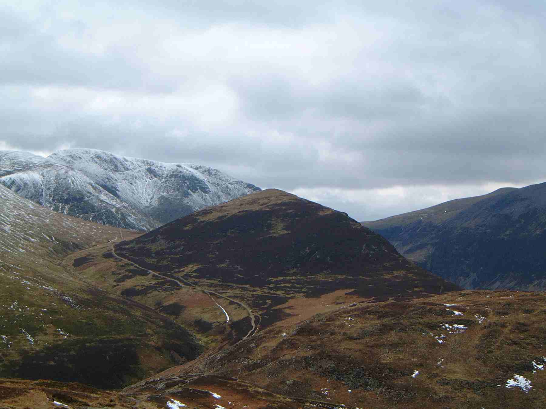 Personal picture taken on March 20th 2006 by Mick Knapton